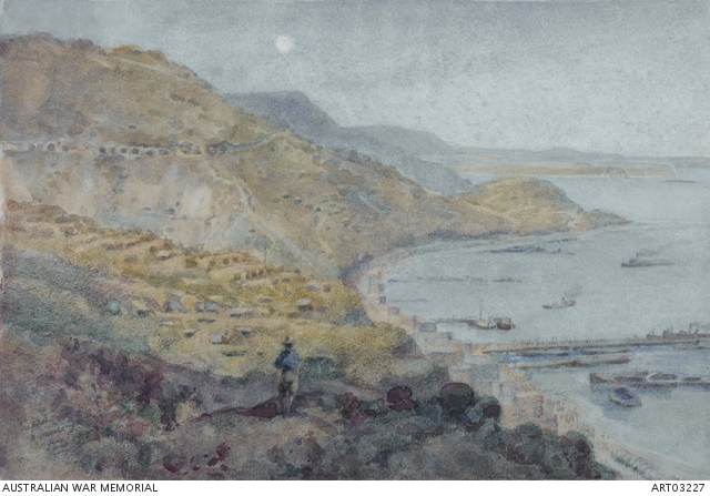 ANZAC Cove [the landing place], painting executed in 1915 by Horace Moore-Jones (1868-1922)